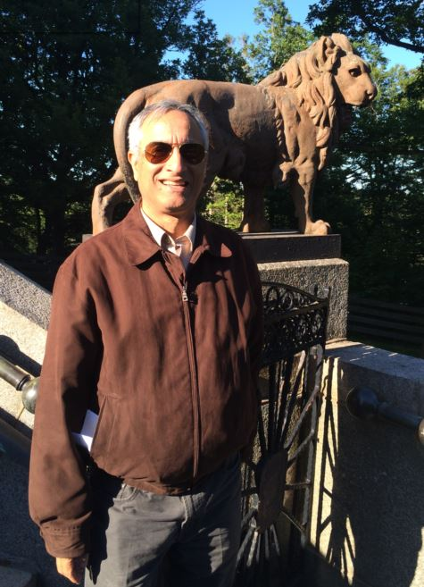 Subhash Kak at Foundations of Quantum Mechanics Conference (2016)